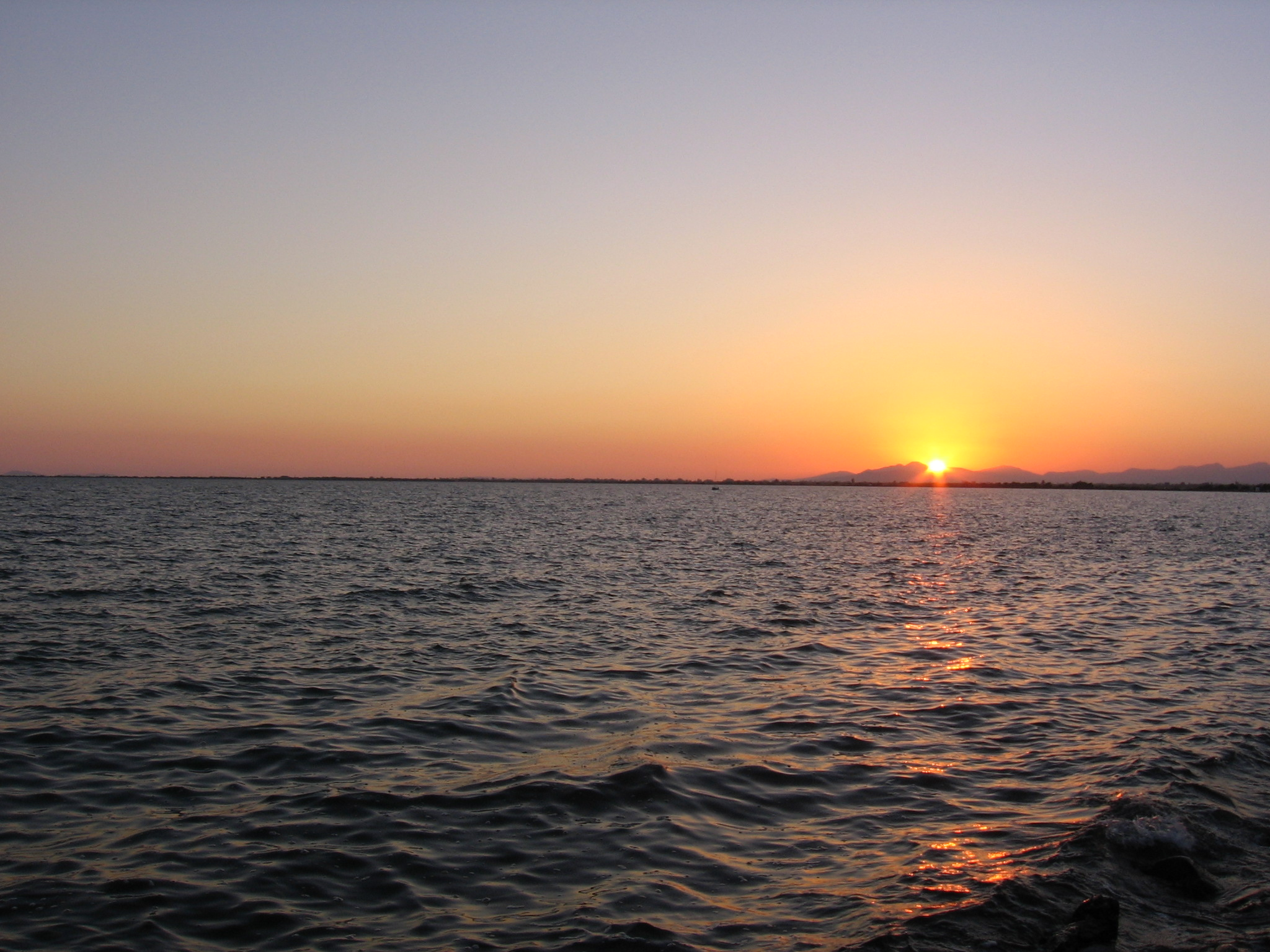 Ambracian Gulf view from Menidi